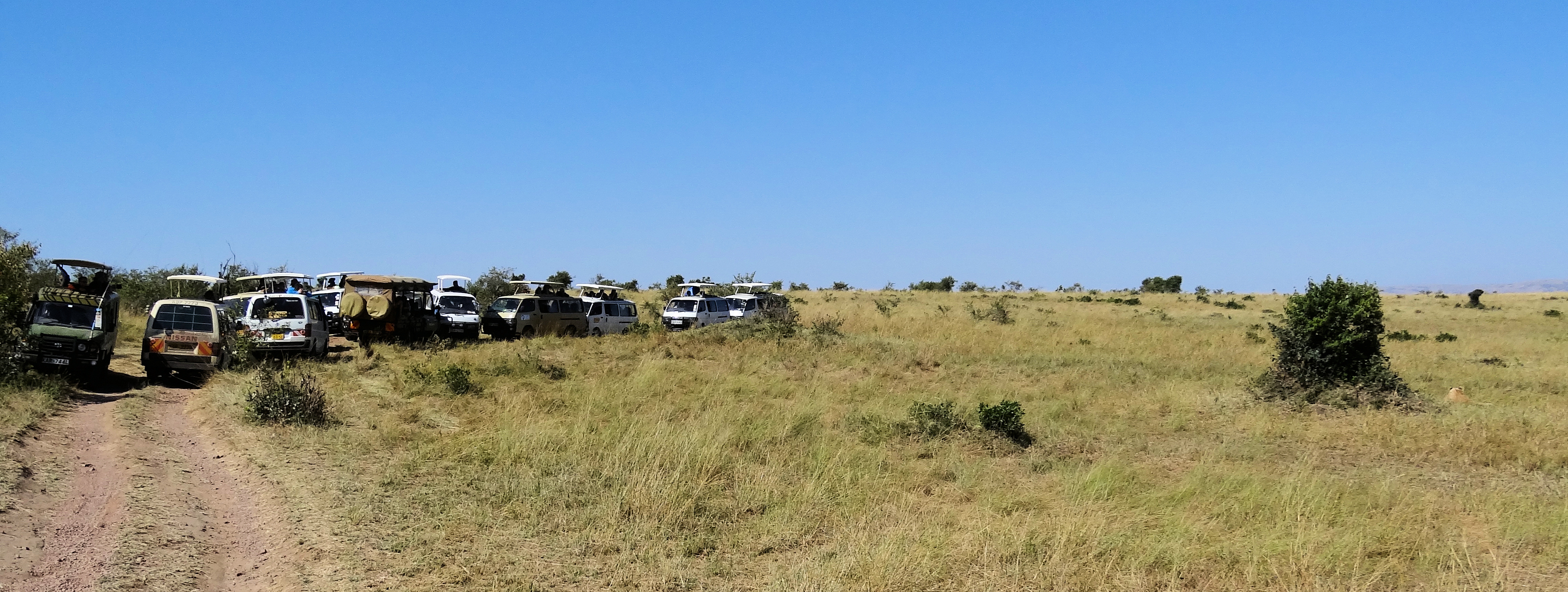 A typical scene at a safari in the Masaai Mara. One vehicle finds a lion resting in the shade of a bush. The driver reports this on the radio, and within minutes a dozen vehicles are lined up to let their passengers view glimpses of lion.